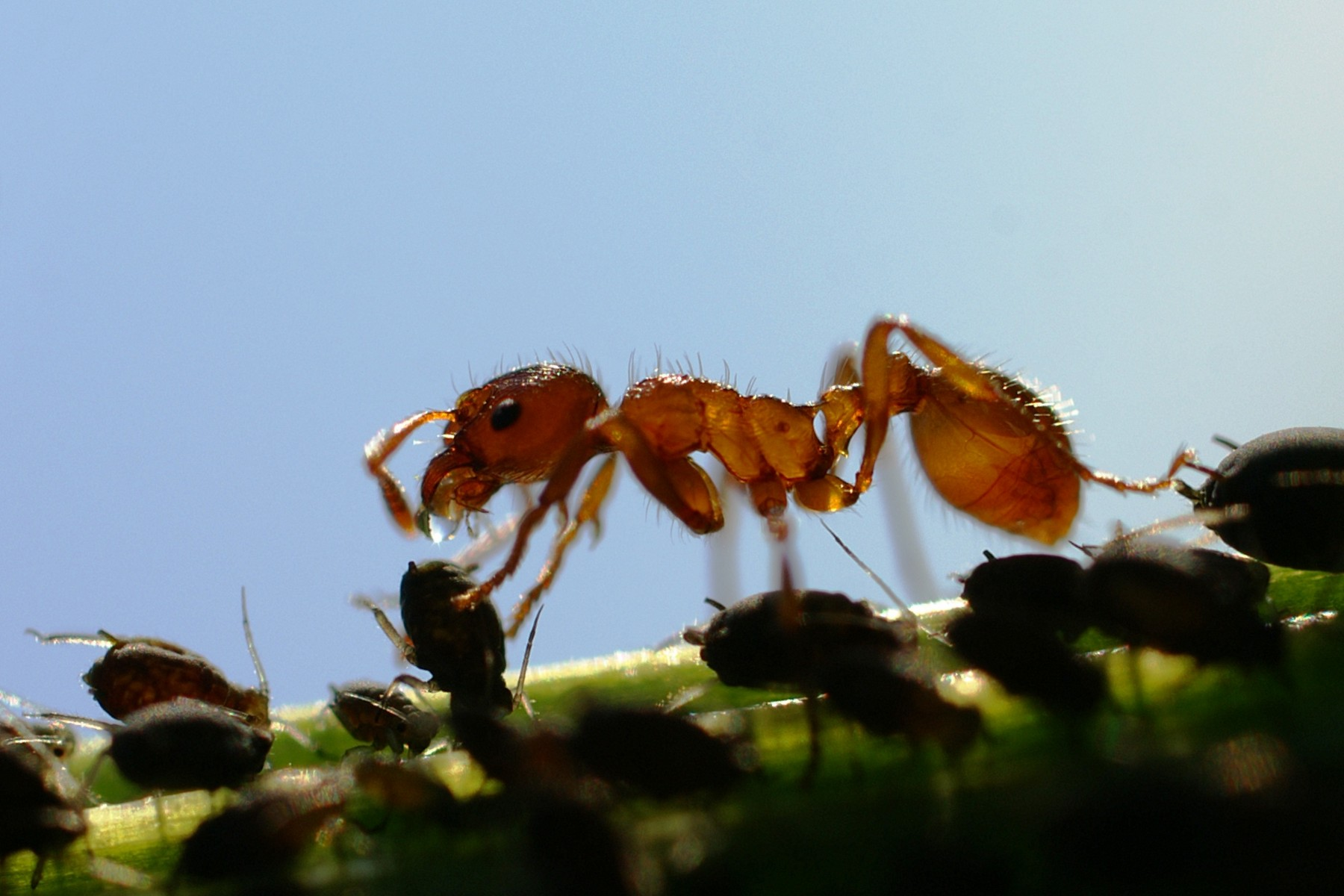 melkende Ameise Honigtau This is a retouched picture, which means that it has been digitally altered from its original version. Modifications: rotation, crop, sky added in the left corner.